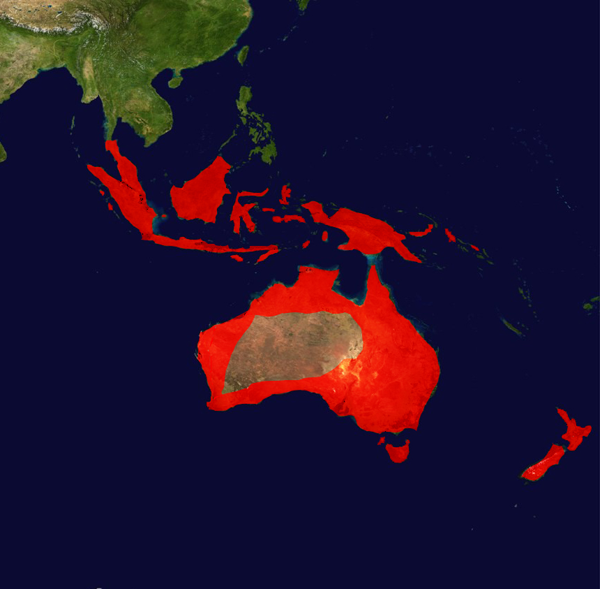 The Range of the Little Pied Comorant